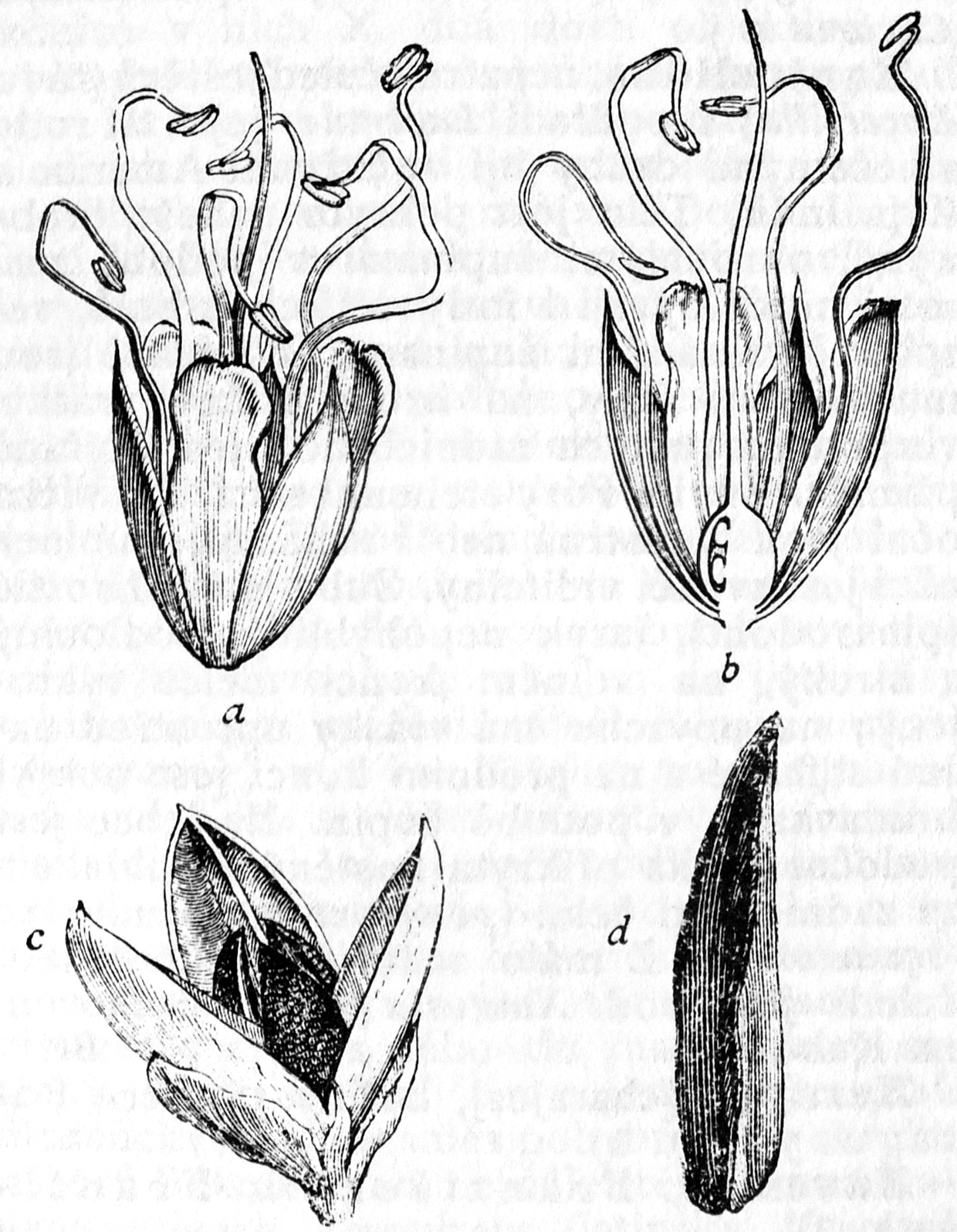 Xanthorrhoea. Flower, fruit and seed.